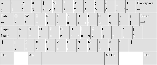 Keyboard layout, Hebrew